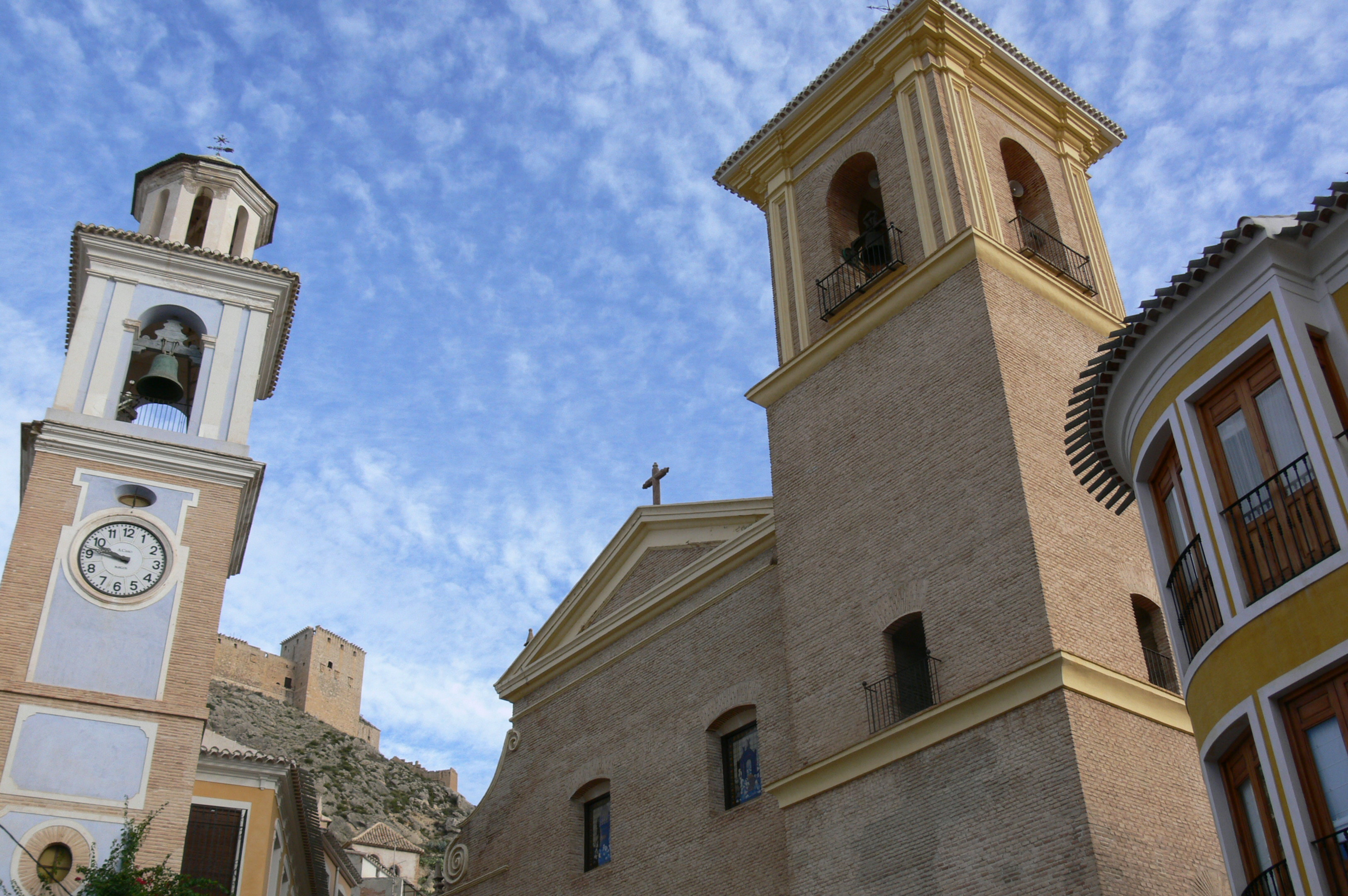 San Miguel´s Church